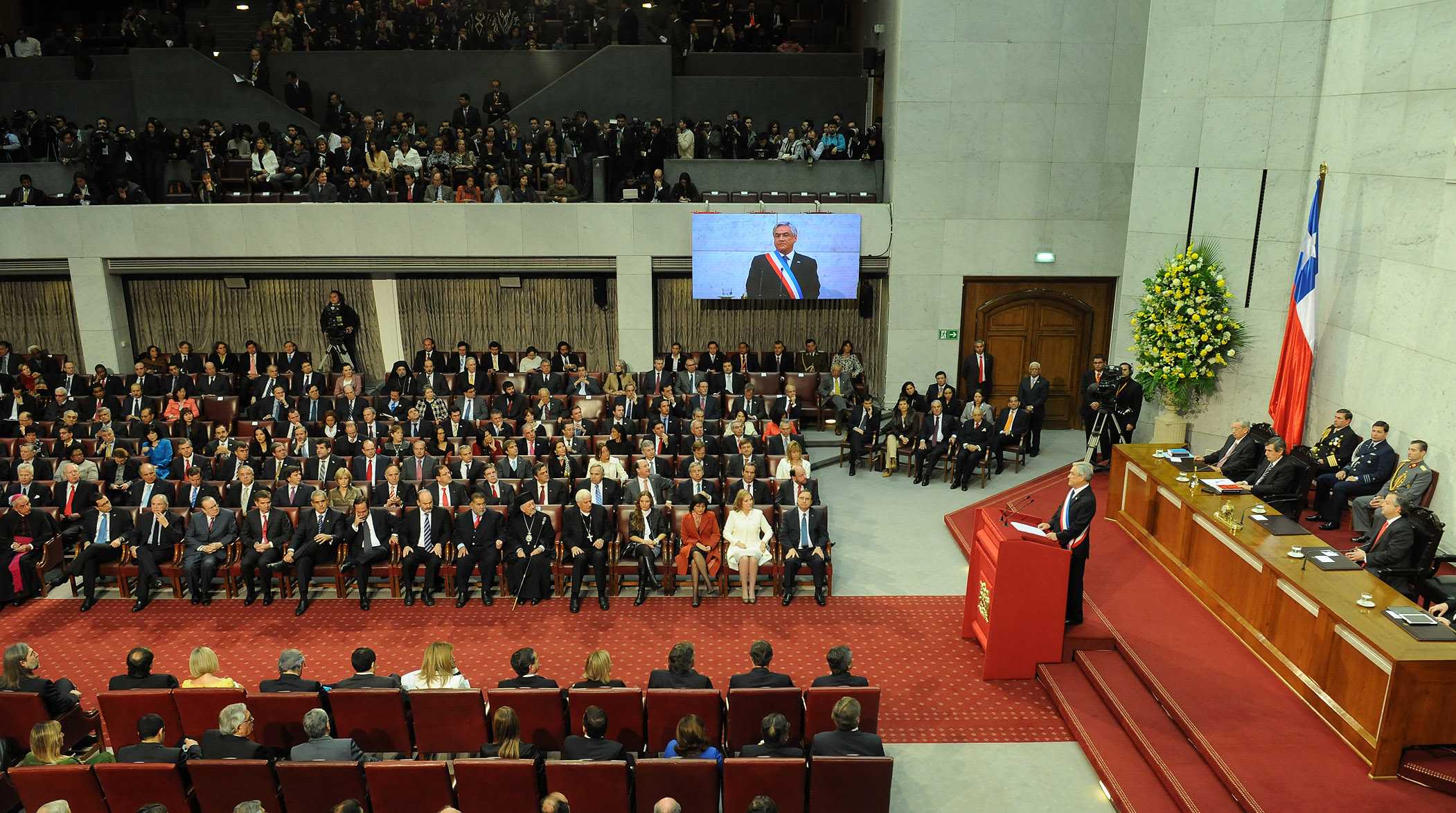 President Sebastián Piñera giving their annual account to the Congress.